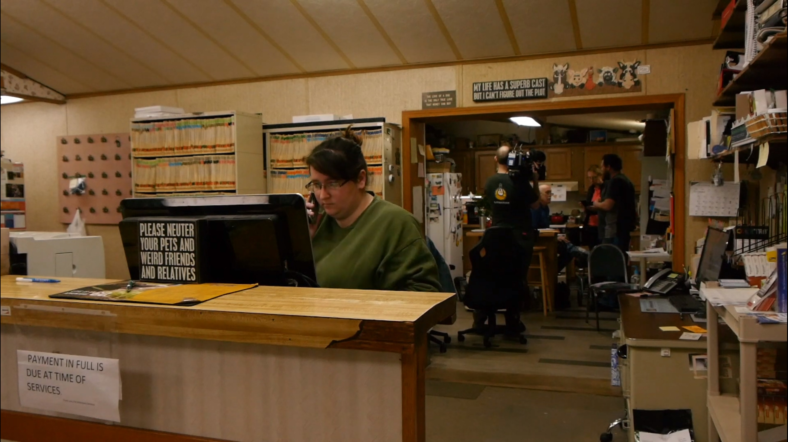 Dr. Pol - @NLinChicago Filming The Incredible Dr. Pol US veterinary reality television program. Connect with the Consulate General of the Kingdom of the Netherlands in Chicago to learn more. Follow @NLinChicago on Twitter, or visit